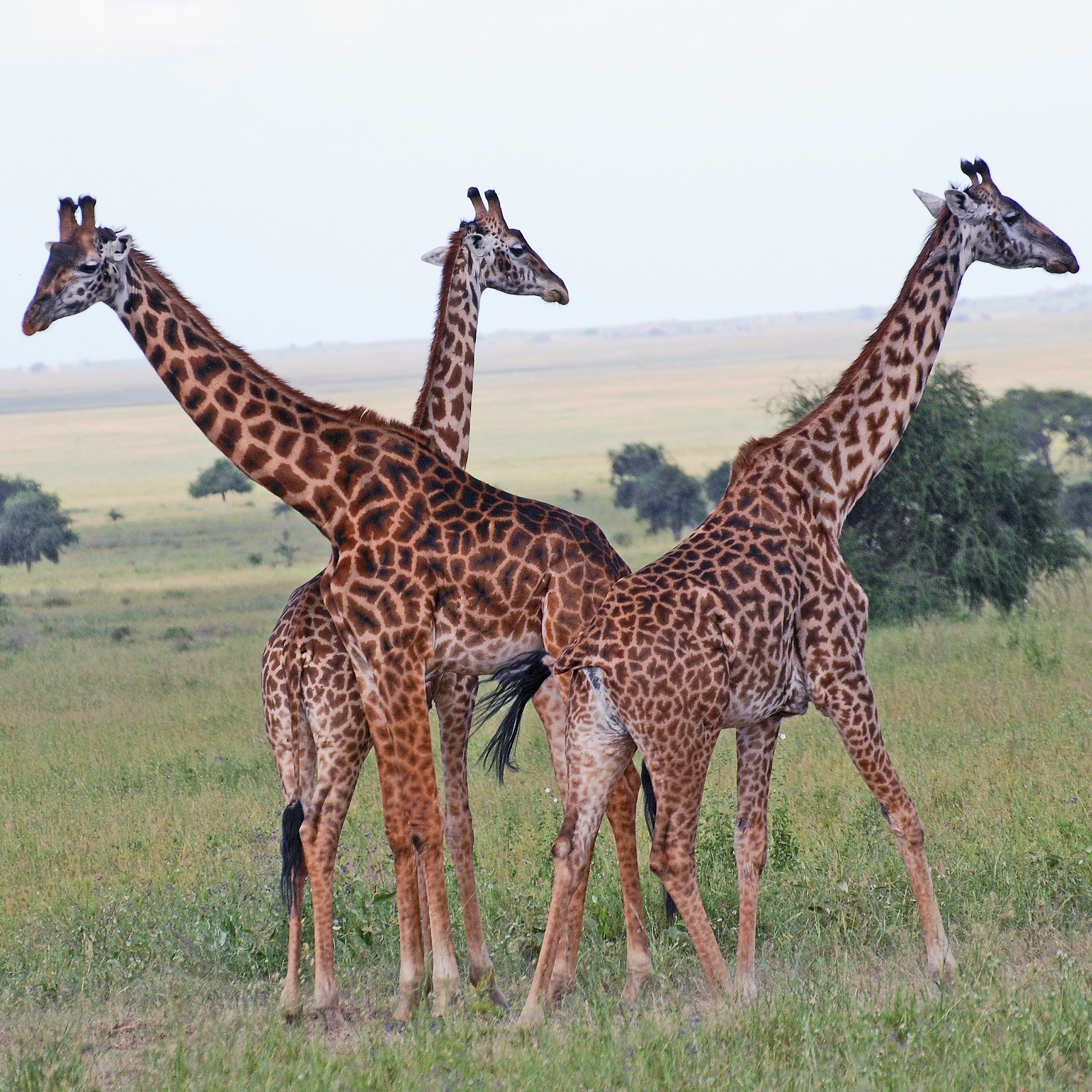 The giraffe (Giraffa camelopardalis) is an African even-toed ungulate mammal, the tallest living terrestrial animal and the largest ruminant.